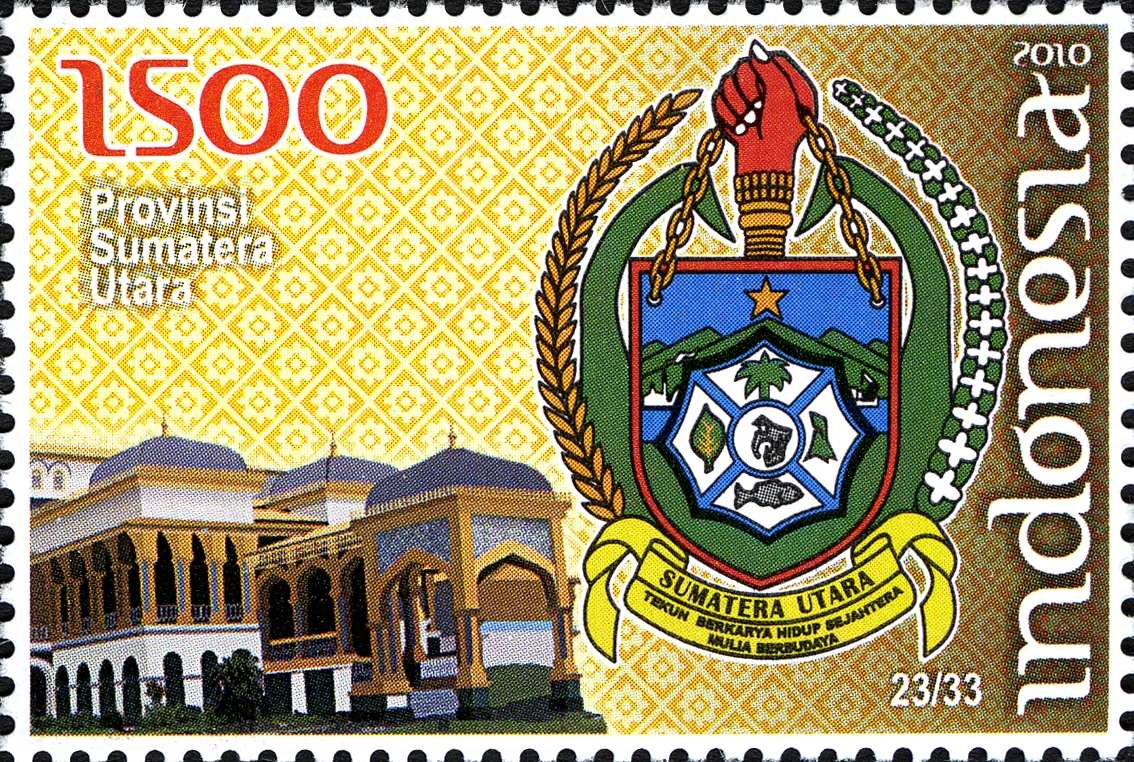 Stamps of Indonesia